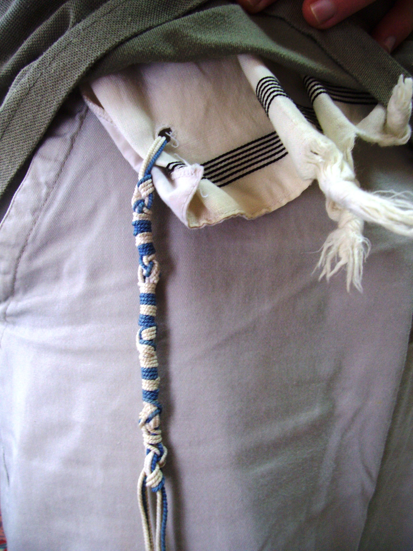 Tzitzit with tchelet